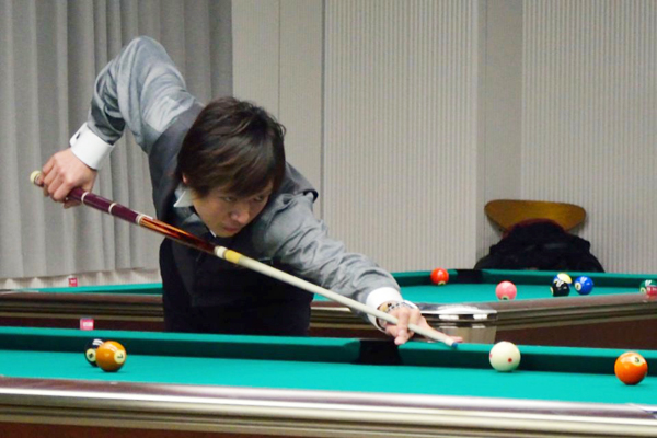 Japanese pool player Yukio Akagariyama